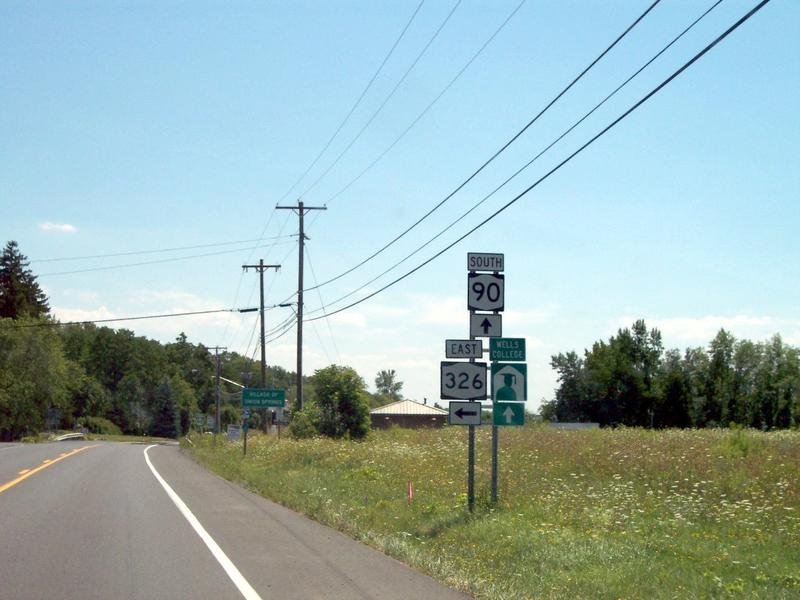 Just north of the Village of Union Springs on the west shore of Cayuga Lake.